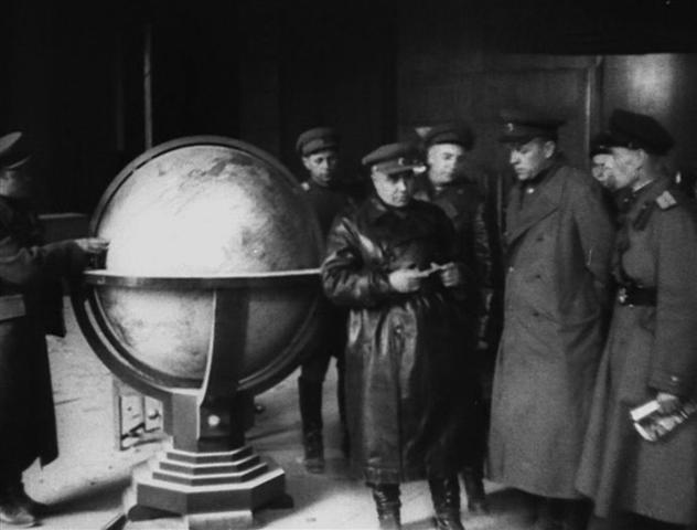 Russian soldiers beside the Columbus Globe (Berlin Reich Chancellery, 1945)